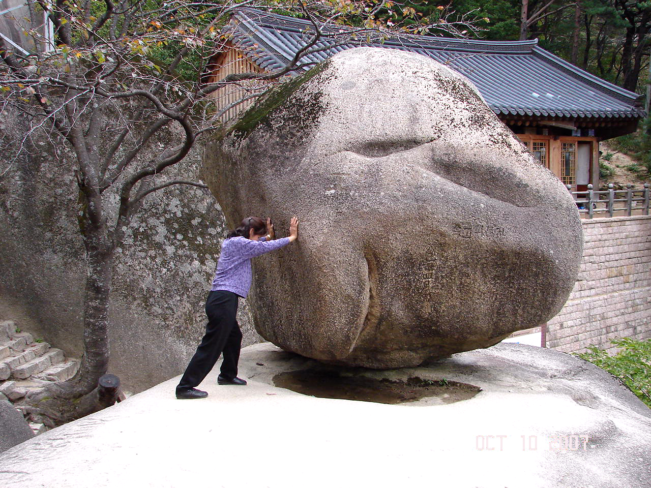 Kyejo-am - shaking Heundeulbawi in Seoraksan National Park